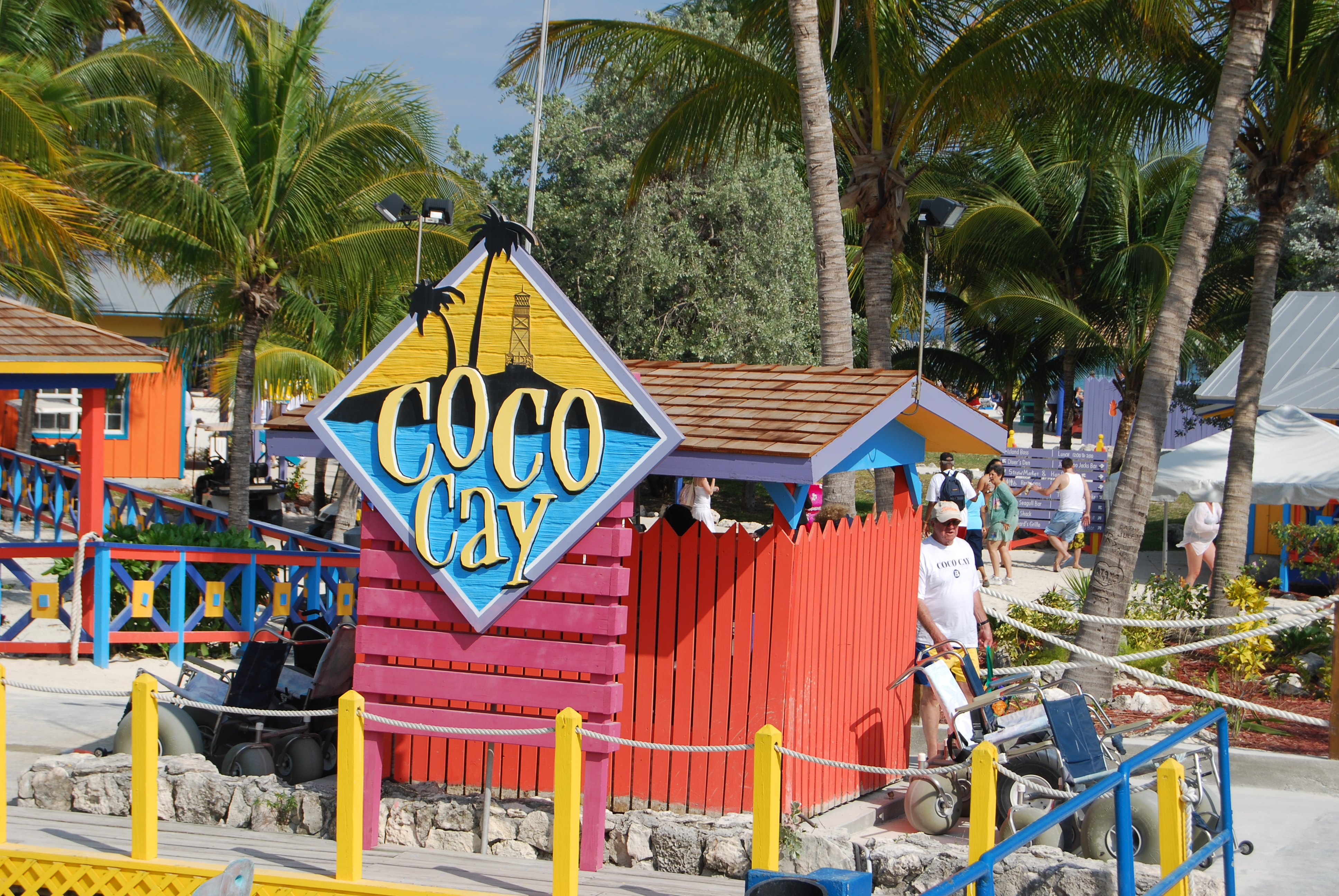 Sign at the entrance to Coco Cay, an island leased by Royal Caribbean International in the Bahamas.